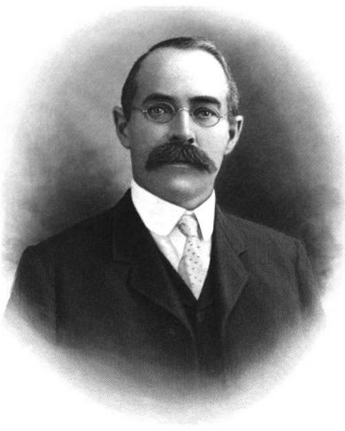 Robert Brown Young (April 1, 1851 - January 29, 1914)